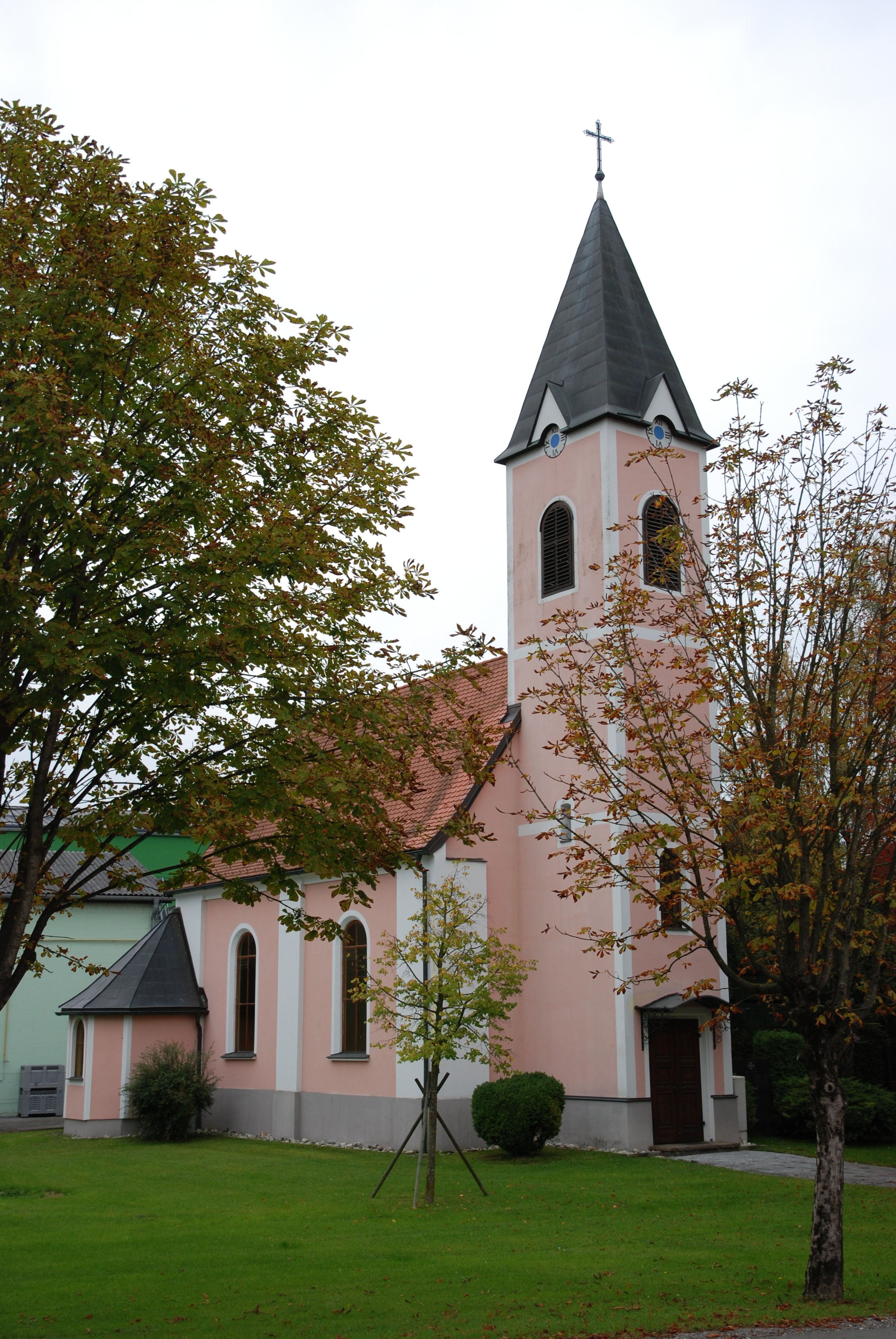 Kapelle Prebensdorf